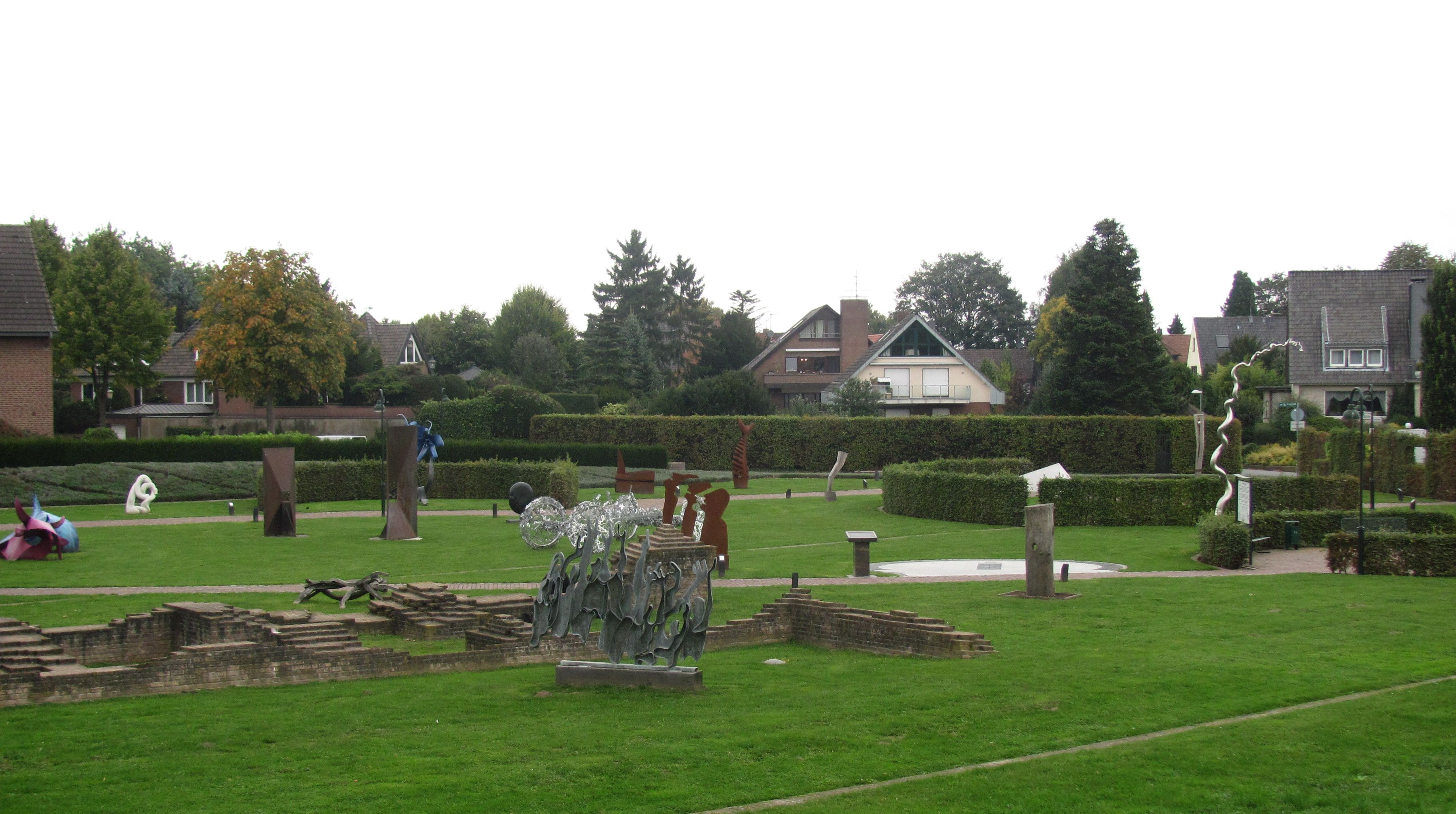 Park of Sculptures, Rees, Germany